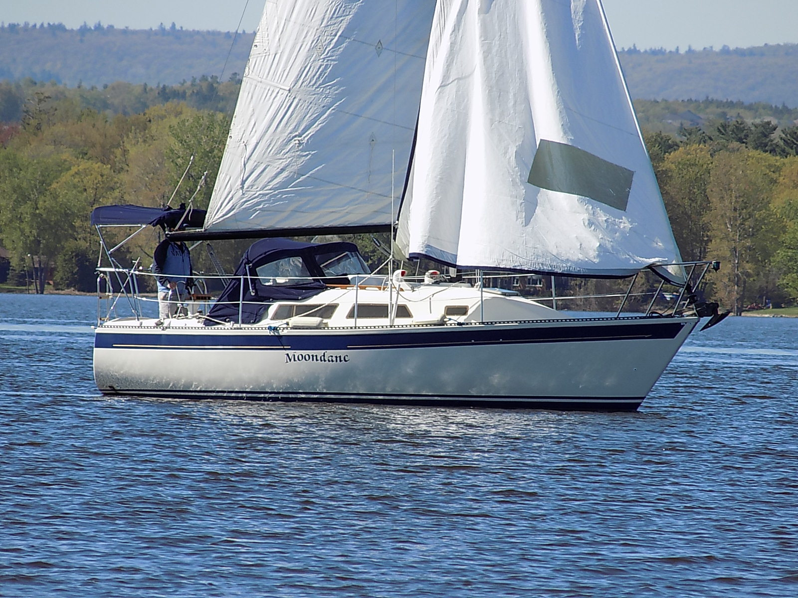 An Aloha 27 sailboat named Moondance.